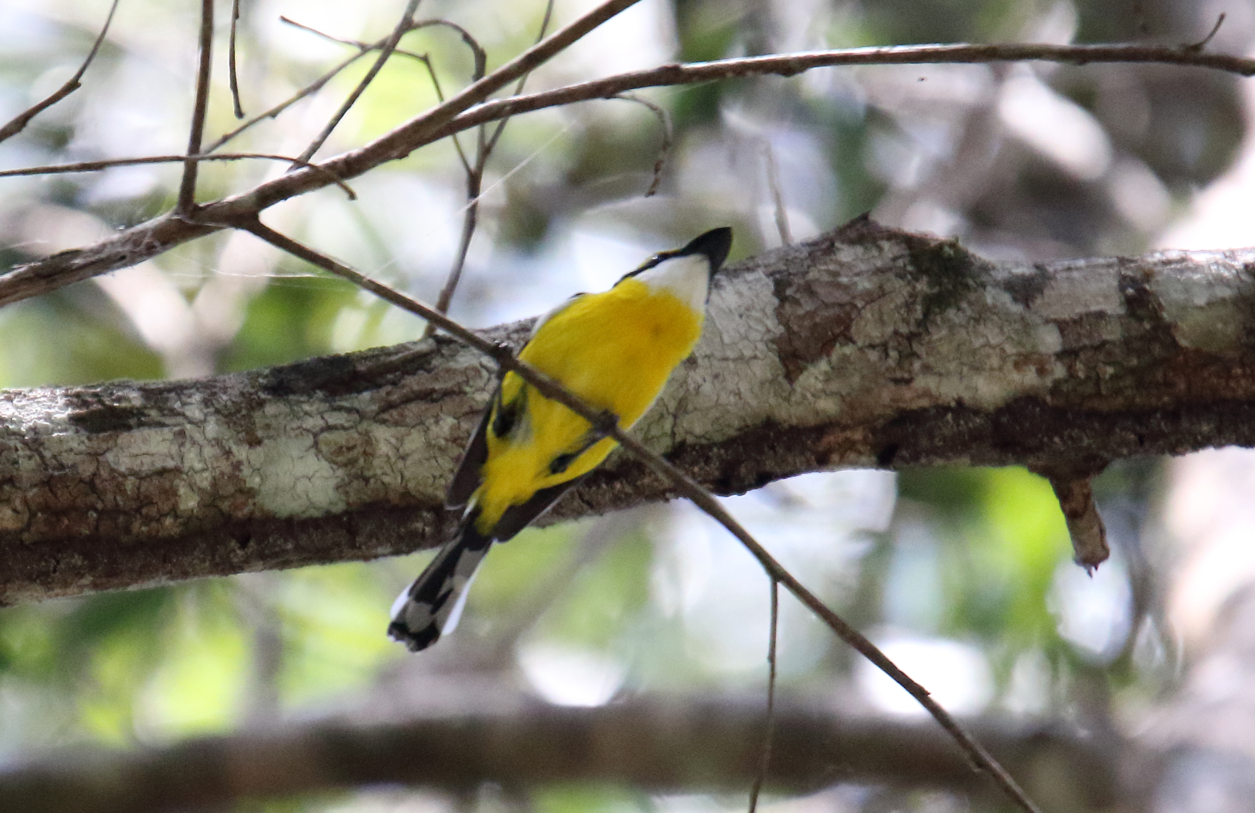 Yellow-breasted Boatbill (Machaerirhynchus flaviventer)